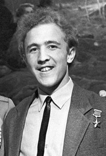 Yury Shikov, a Hero of the Soviet Union.